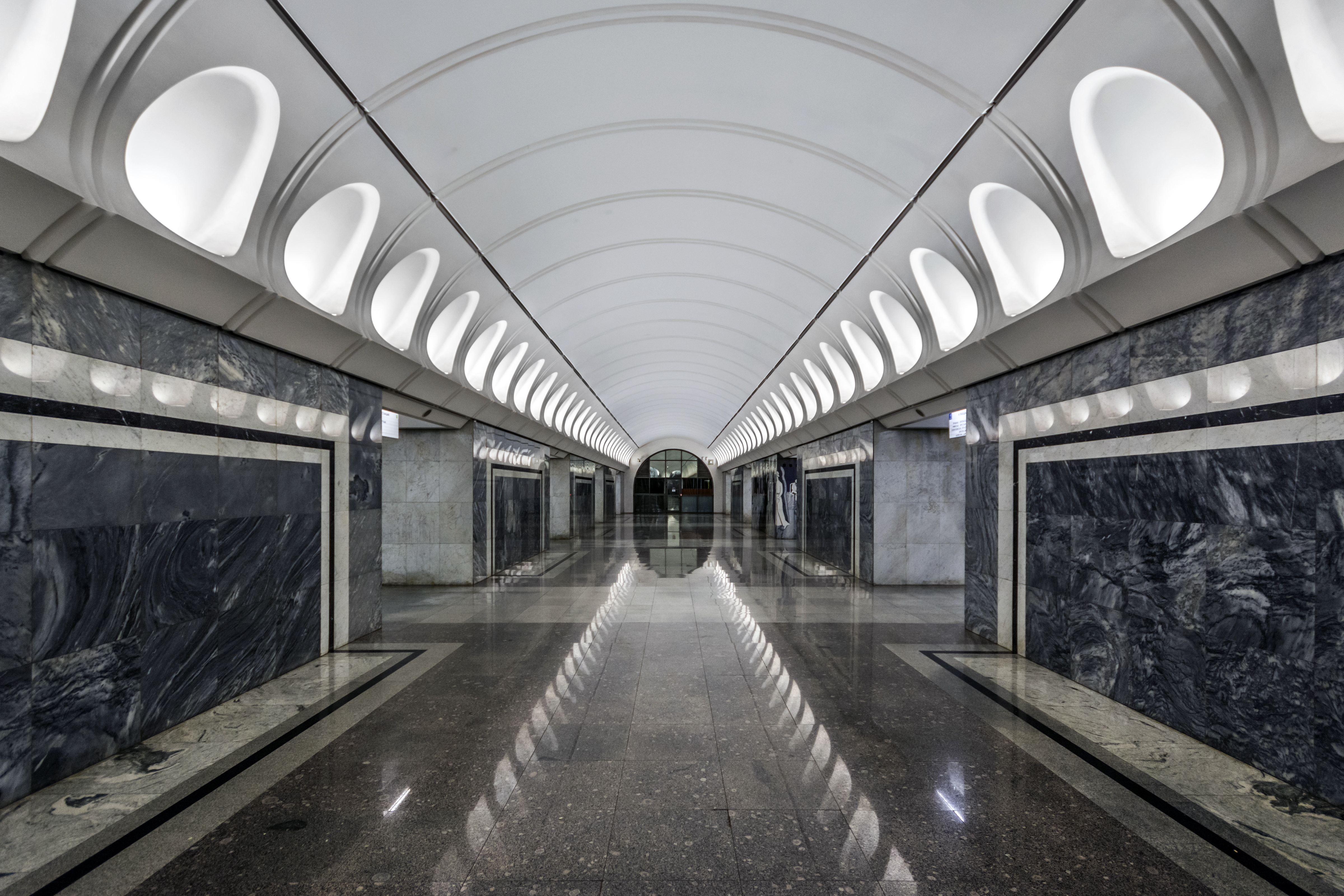 Dostoevskaya Station of Moscow Subway